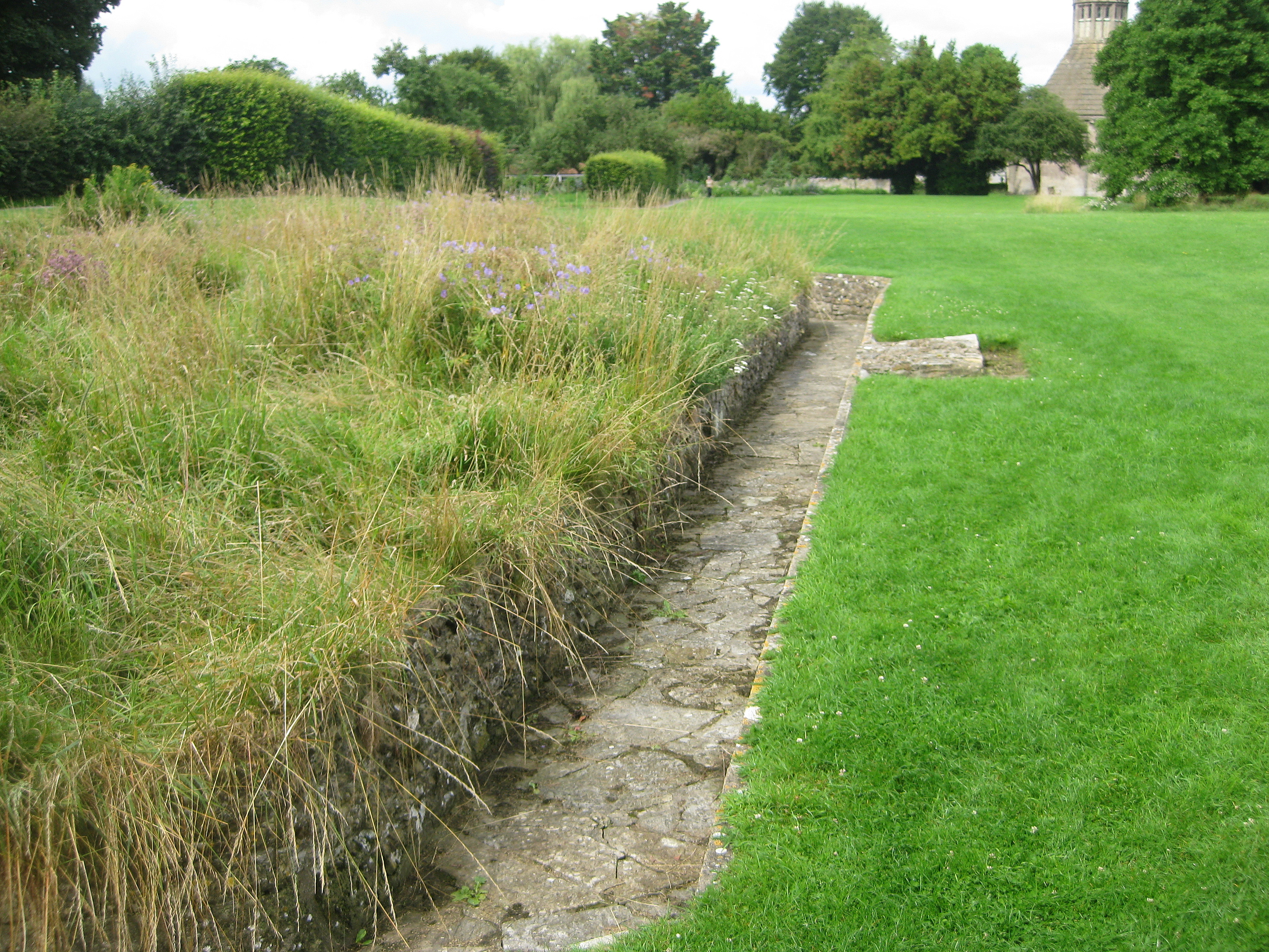 Reredorter at Glastonbury Abbey, Glastonbury, Somerset, UK